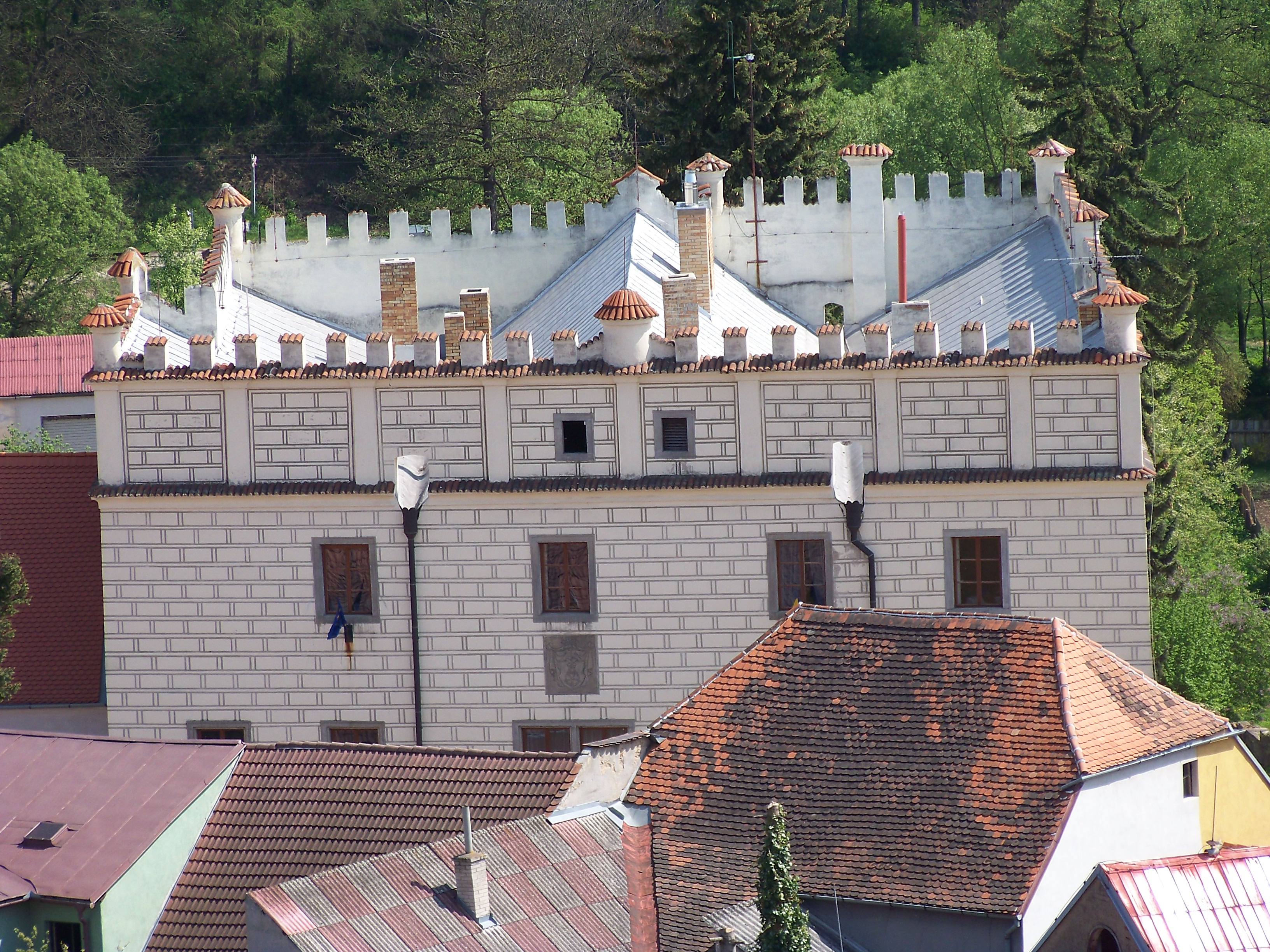 Dačice, South Bohemian Region, the Czech Republic. A view from city tower.